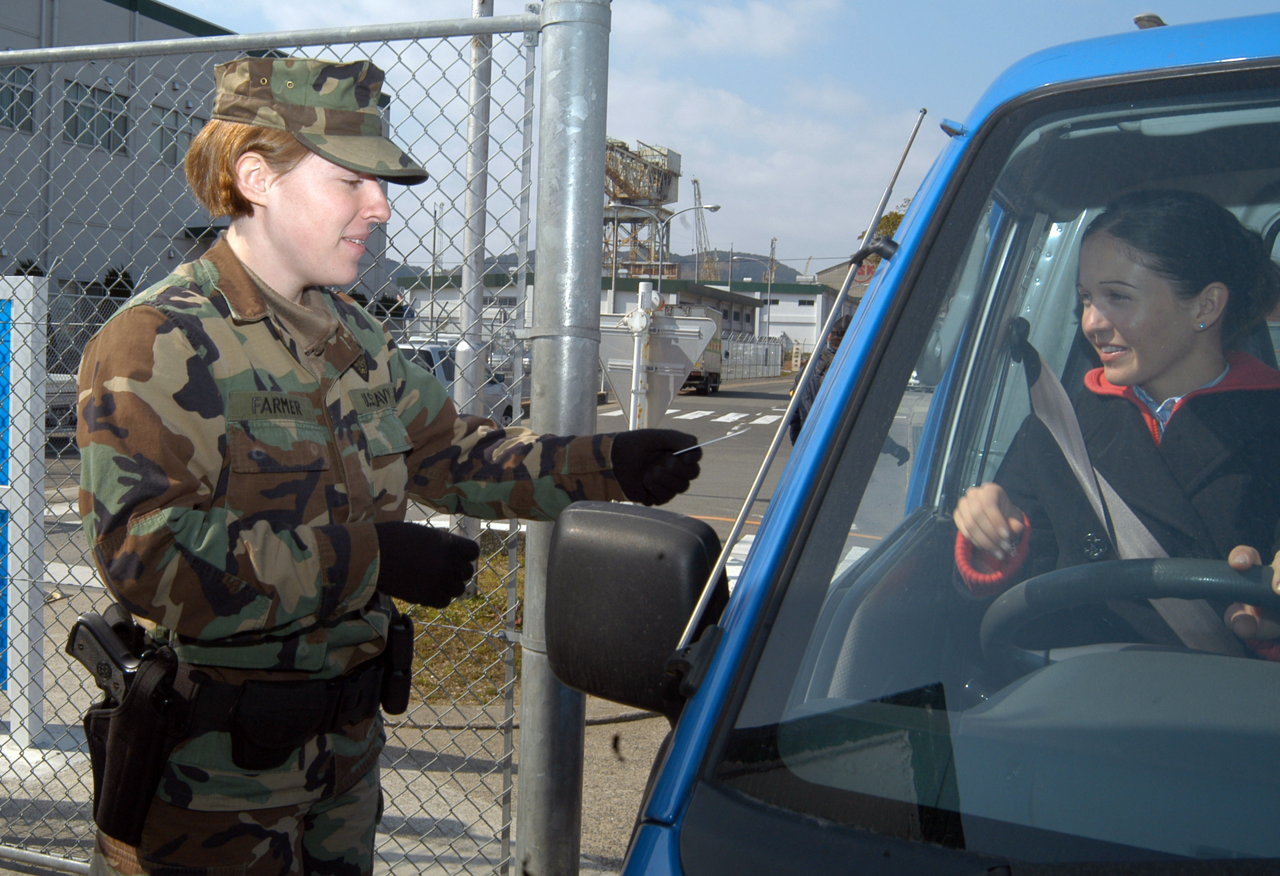 U.S. Fleet Activities Sasebo, Japan (Mar. 8, 2005) - Master-at-Arms Seaman Carly Farmer checks an identification card (ID) before allowing a driver to enter the gate at U.S. Fleet Activities Sasebo, Japan. Seaman Farmer, assigned to Fleet Activities Security Department, stands guard, checks IDs, and conduct various security measures, depending on the force protection condition of the base. U.S. Navy photo by Photographer’s Mate 3rd Class Yesenia Rosas (RELEASED)